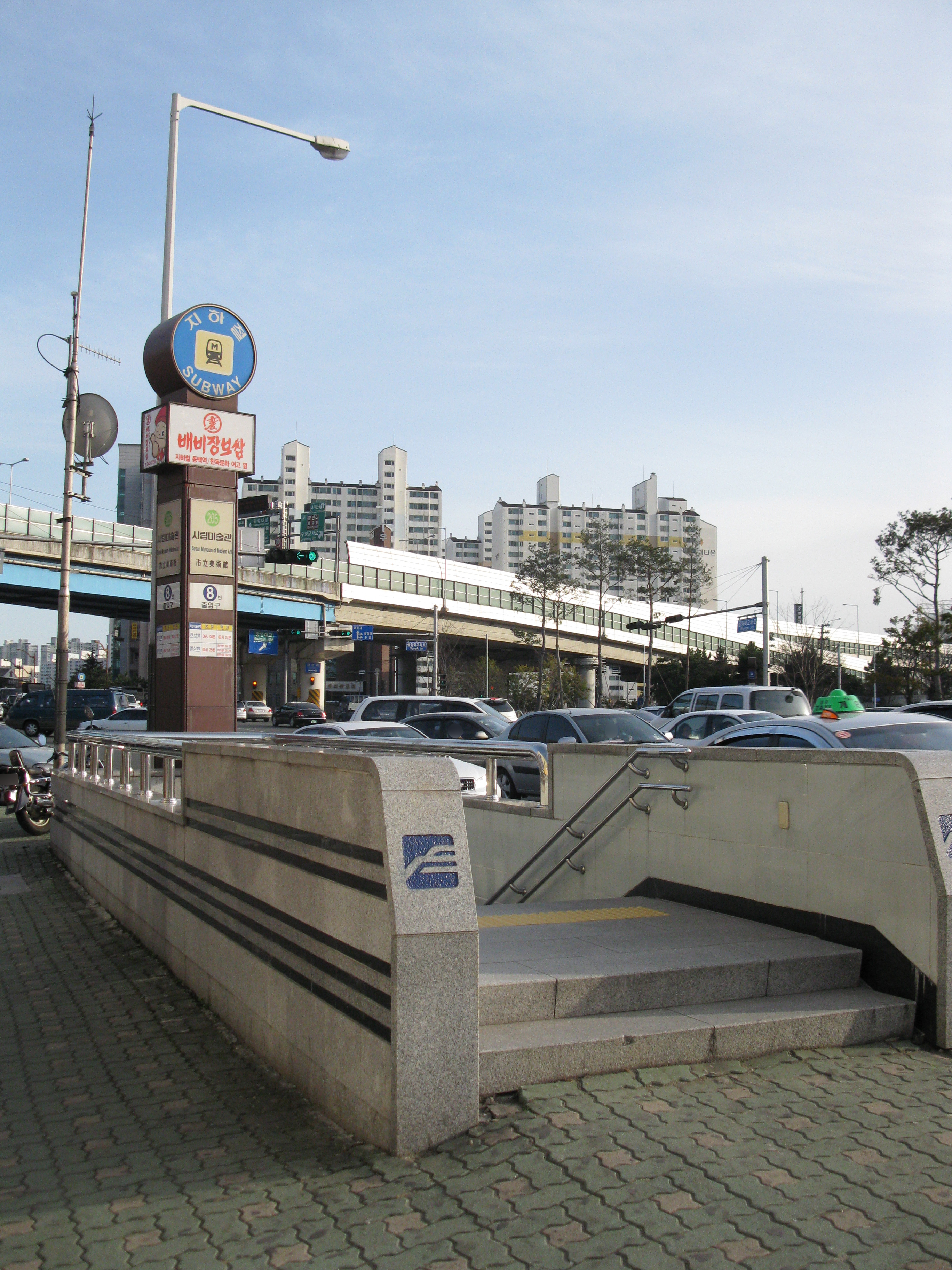 Busan Museum of Modern Art Station no.8 entrance (Busan Subway Line 2)